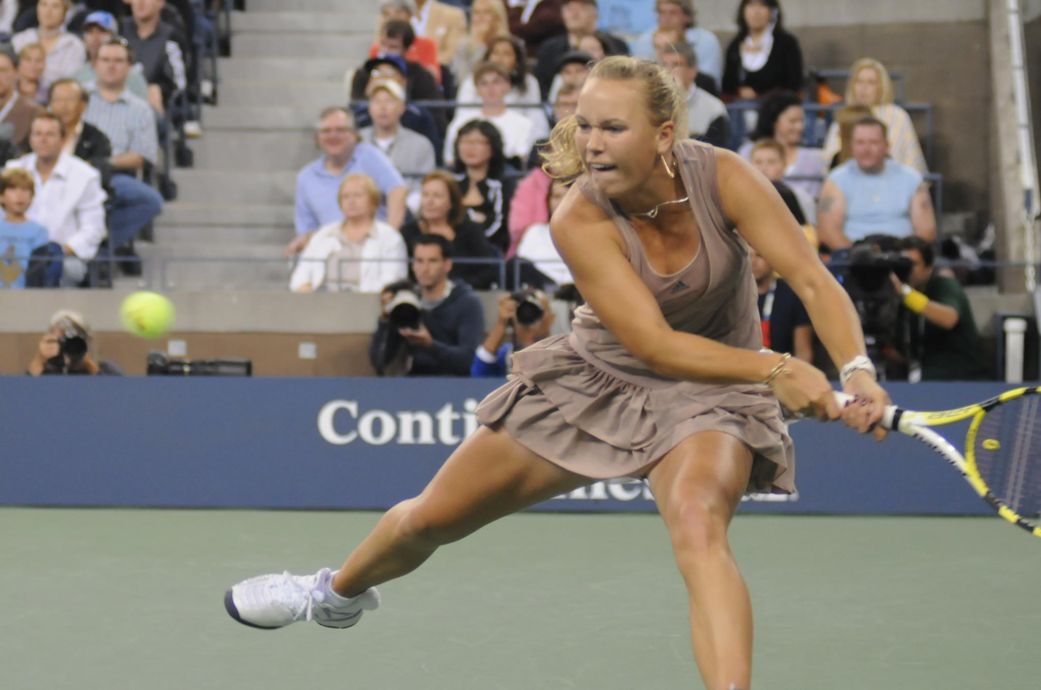 Caroline Wozniacki at the 2009 US Open